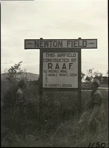 NADZAB, NEW GUINEA. 1944-05-09. SERGEANT B. N. NALTY, RAAF OF GLANDORE, SA AND WARRANT OFFICER I. ARMSTRONG, SYDNEY OF NSW AT THE ENTRANCE SIGN TO NEWTON FIELD, NAMED AFTER THE LATE FLIGHT LIEUTENANT B. NEWTON VC, RAAF OF ST KILDA, VIC.